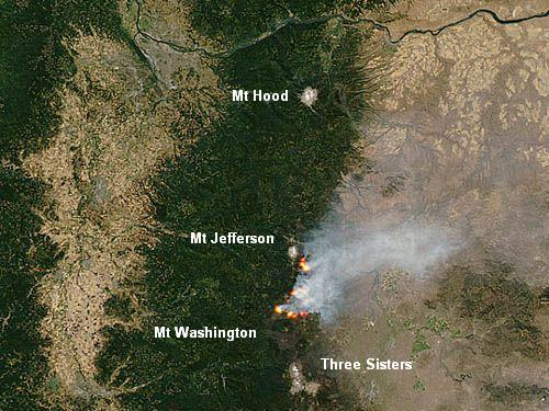 NASA satellite image of B&B Complex Fires in the Cascades Mountains of Oregon on 24 August 2003; the Bear Butte Fire is the northern fire front and the Booth Fire is the larger fire front to the south